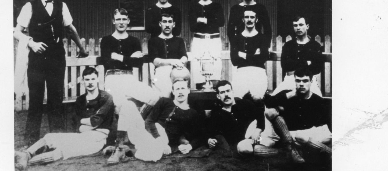 1891 Scottish Cup winning squad